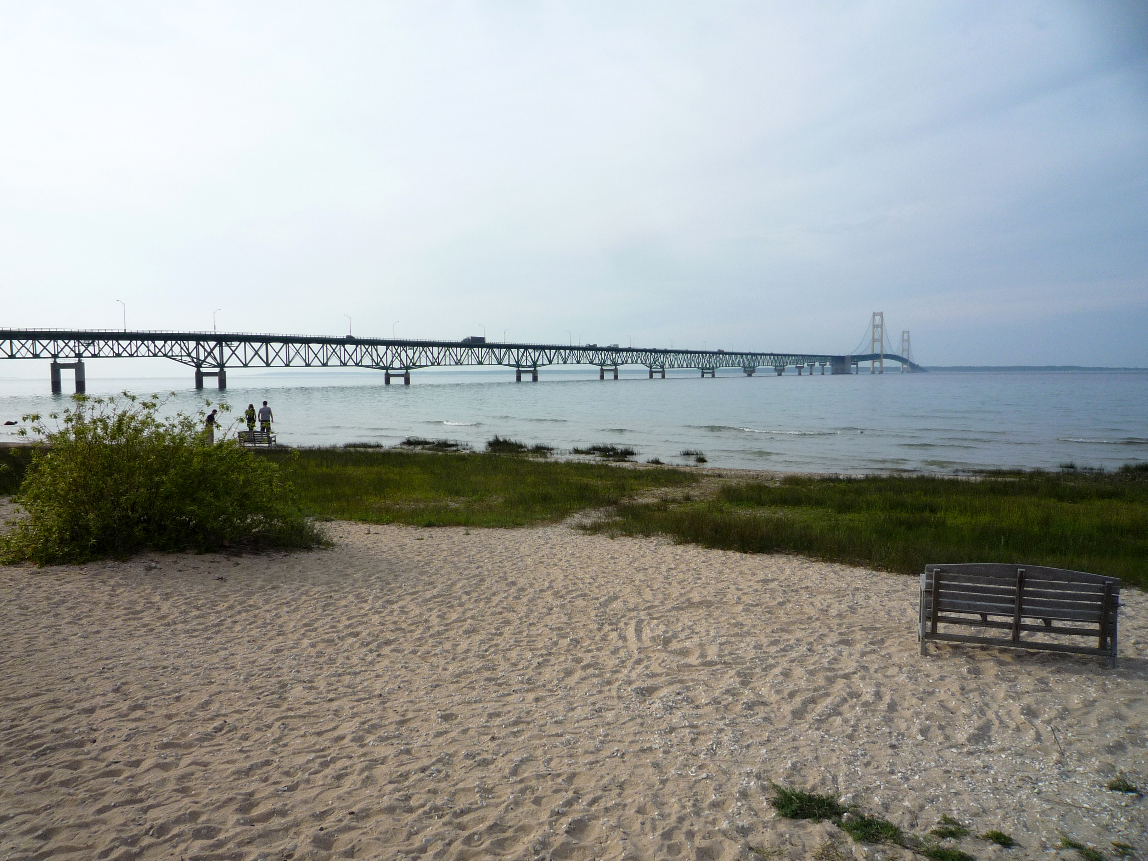 Mackinac Bridge as viewed from Mackinaw City, Michigan, USA.